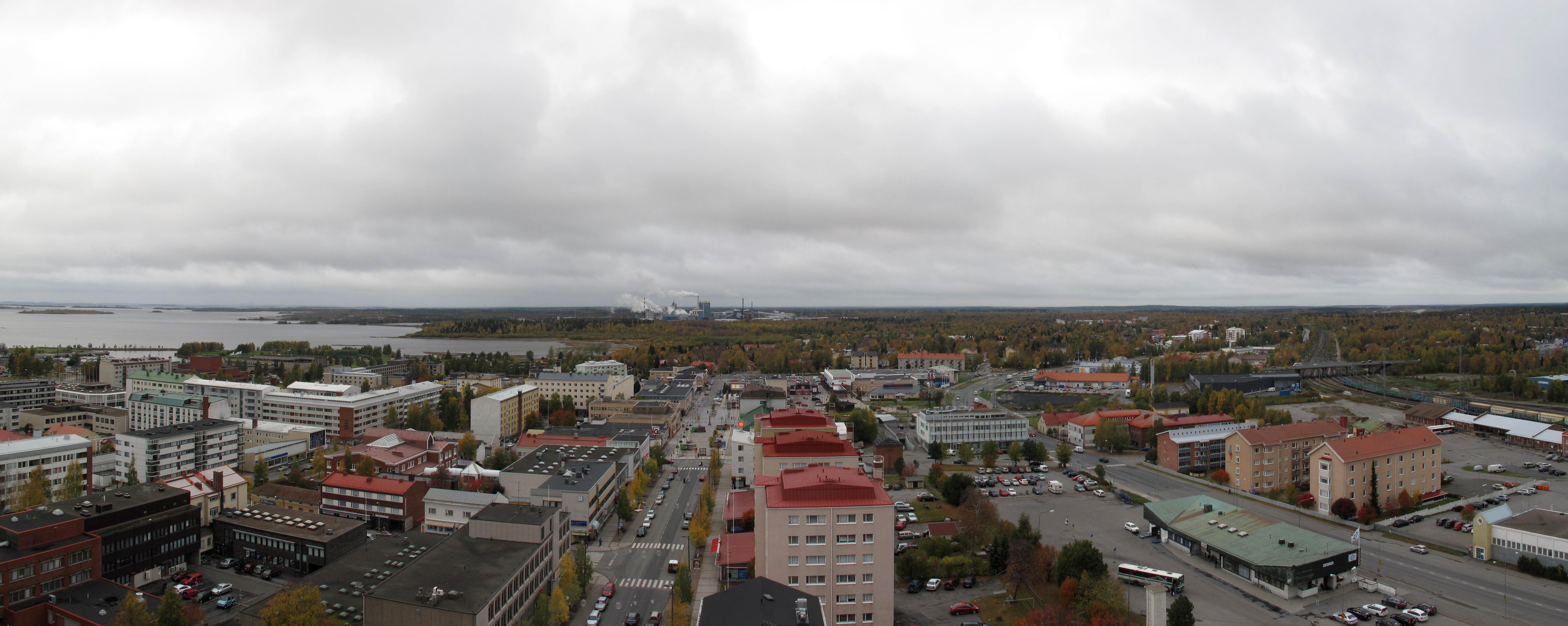 Panorama of the City of Kemi south-west from the roof of city hall.